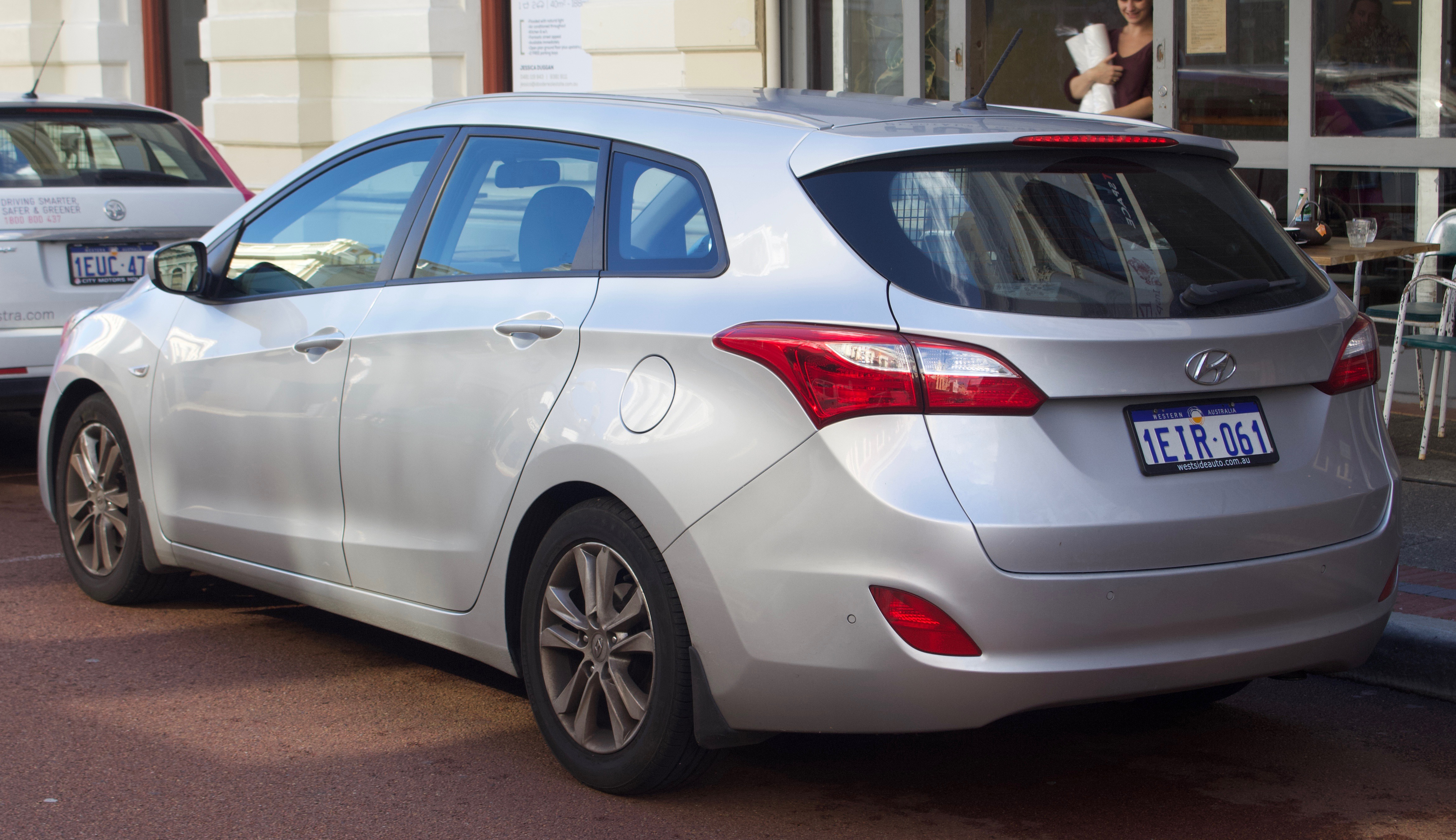 2012-2014 Hyundai i30 (GD) Active Tourer. This is the Active as denoted by the body-coloured door handles. This vehicle is also debadged. Photographed in Fremantle, Western Australia, Australia.